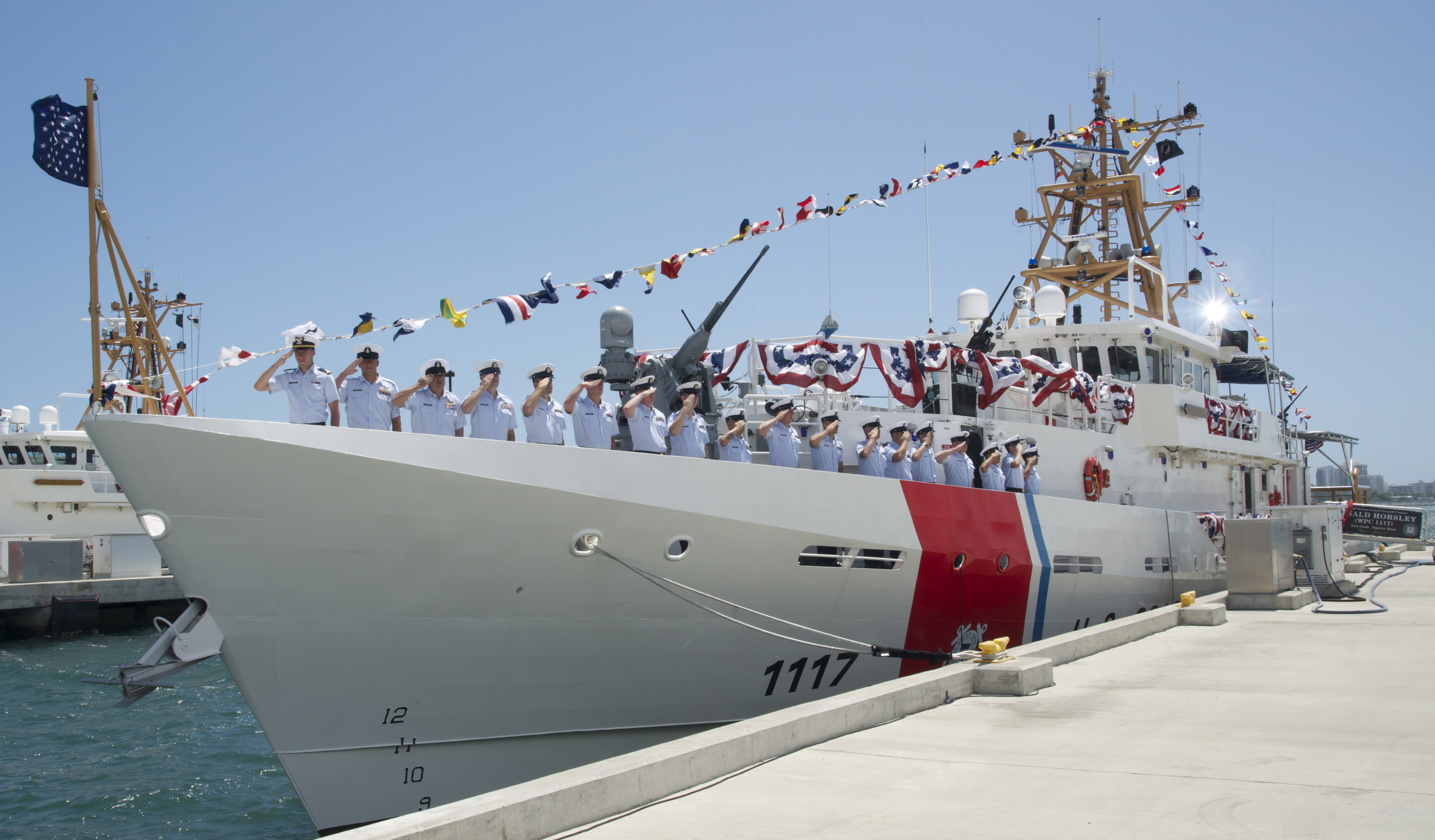 The crew of the U.S. Coast Guard Cutter Donald Horsley salutes as the ship is brought to life during its commissioning at Coast Guard Sector San Juan, Puerto Rico May 20, 2016. The Donald Horsley is the Coast Guard's 17th Sentinel Class fast response cutter and the fifth of its kind to be homeported in San Juan, Puerto Rico. (U.S. Coast Guard photo by Ricardo Castrodad)